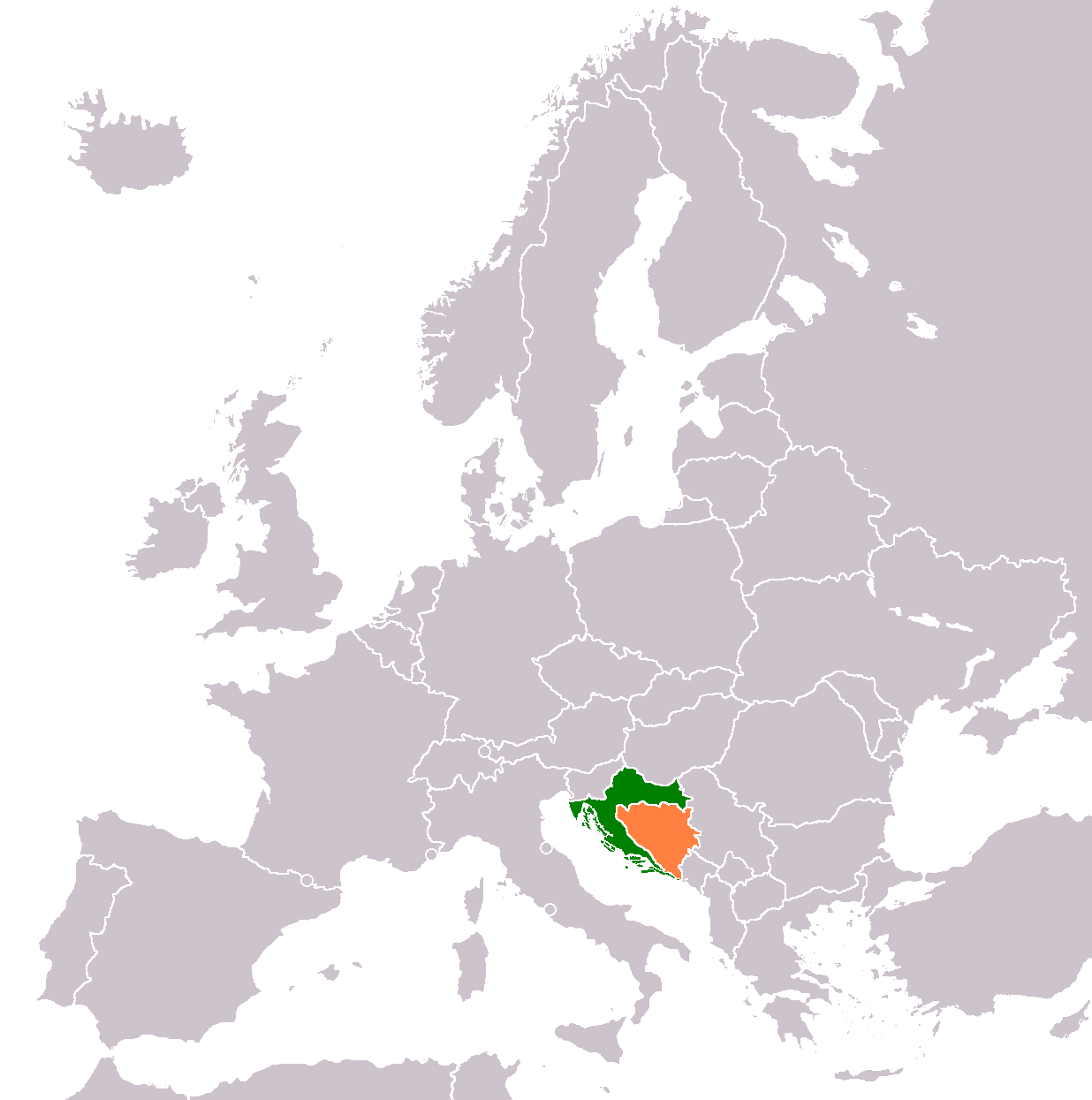 Locator map or Europe showing Croatia in green and Bosnia and Herzegovina in orange.